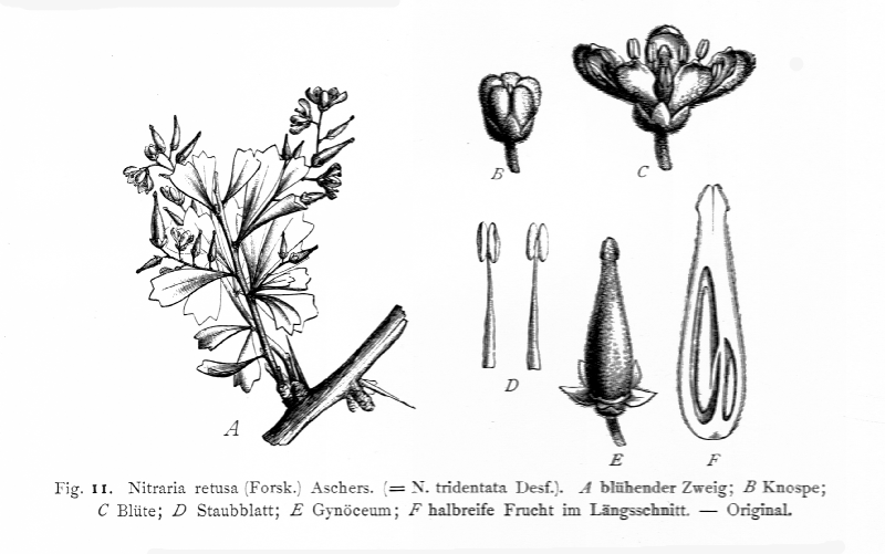 Nitrariaceae Nitraria retusa from Vegetation der Erde (1910) v. 9 Bd. I, Heft 1. Fig. 11. by Adolf Engler (1844-1930)